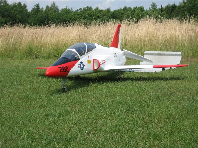 Radiocontrolled Jetmodell